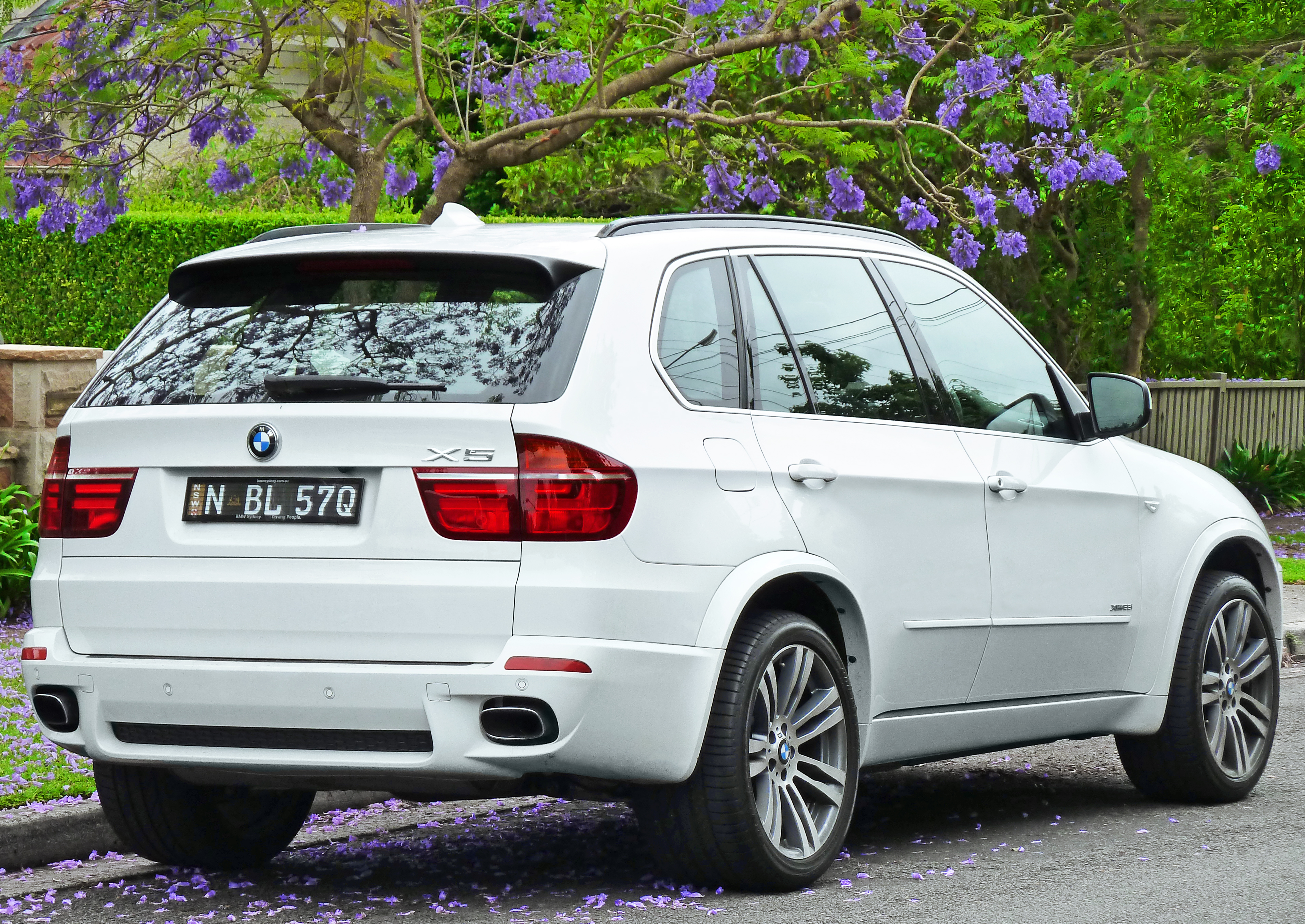 2010–2011 BMW X5 (E70) xDrive35i wagon. Photographed in Lindfield, New South Wales, Australia.